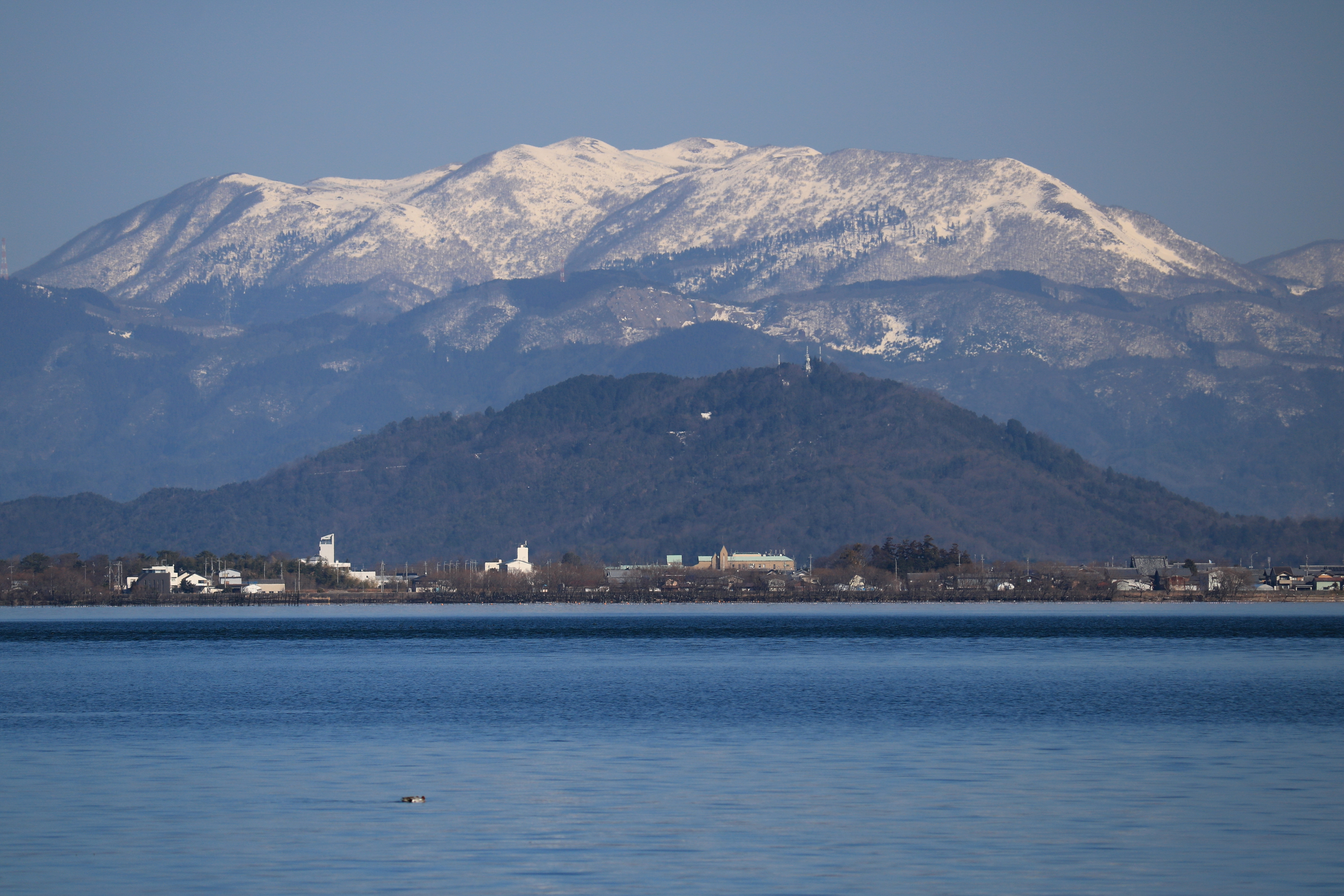 Mount Ryozen and Mount Kojin seen from Oki Island in Shiga Prefecture, Japan.